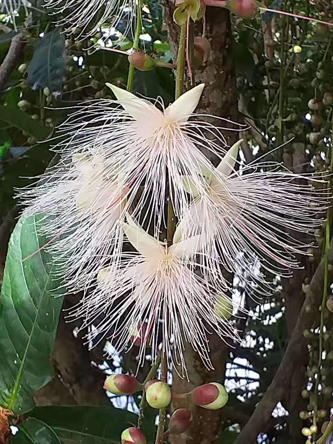 Barringtonia racemosa. Jiaoxi, Yilan, Taiwan.